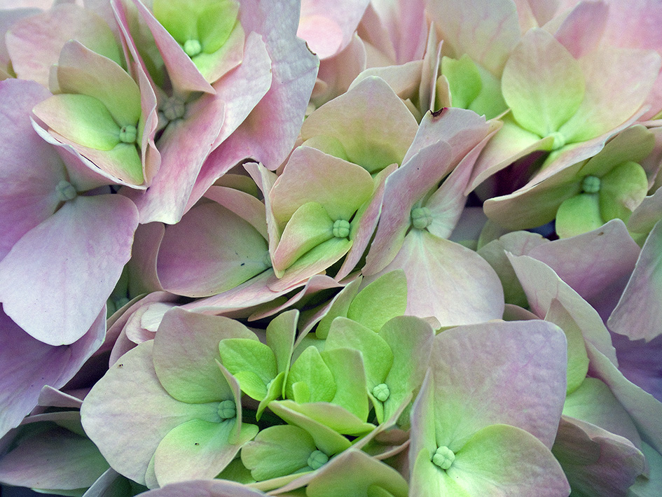 Close up of a Hydrangea flower set.